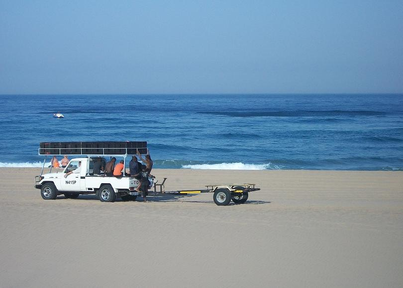 An attempt at netting a sardine shoal (Sardinops sagax) at Amanzimtoti